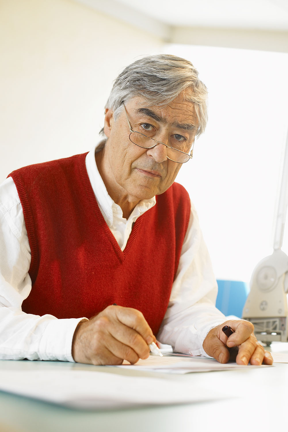 portret of Peter Ghyczy, designer